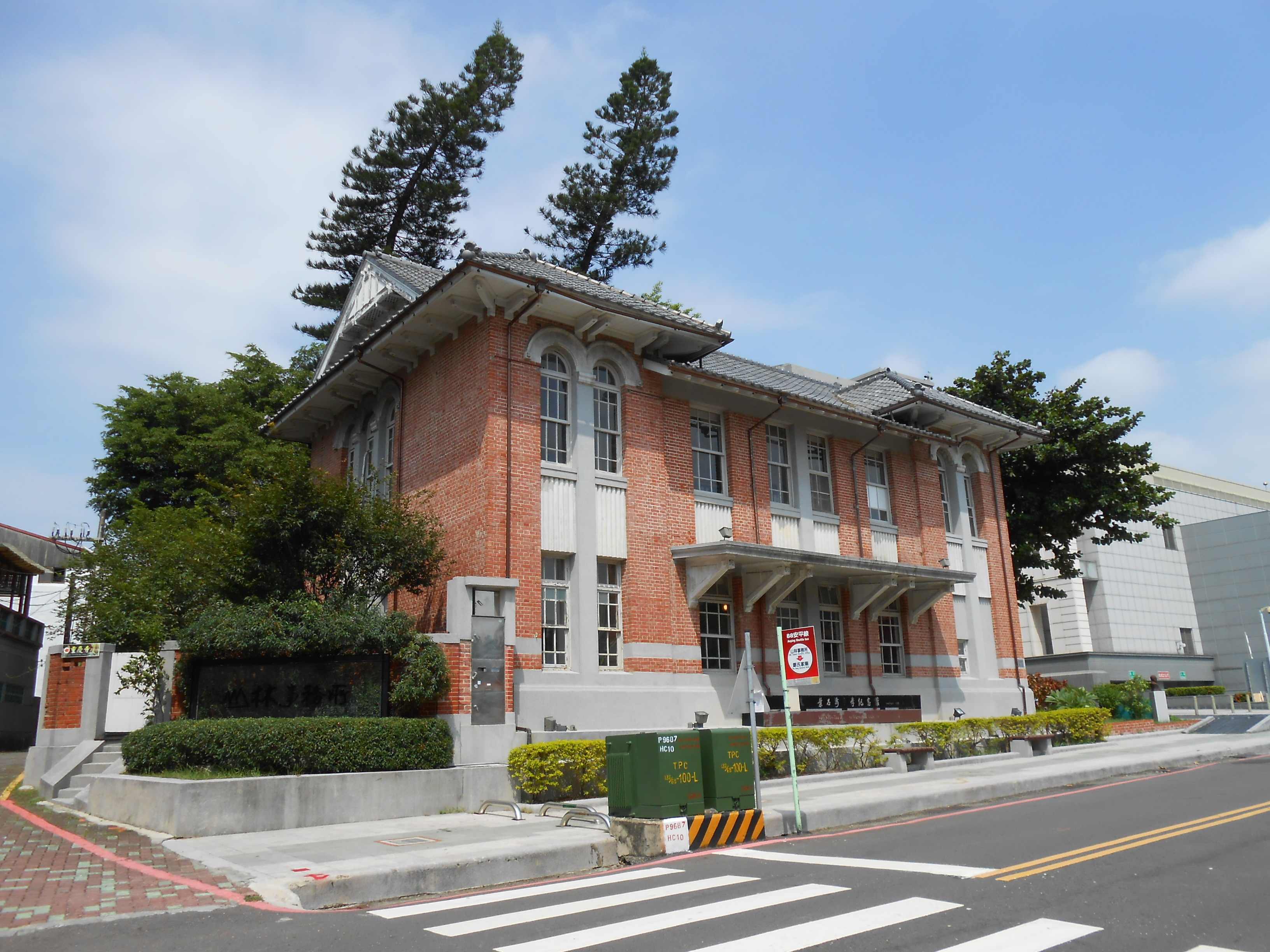 Yeh Shih-tao Literature Memorial Hall中文（台灣）: 葉石濤文學紀念館。